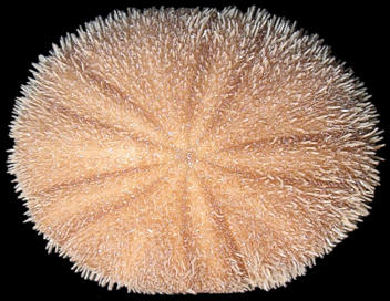 Picture of Echinoneus cyclostomus